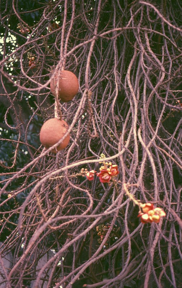 Kanonenkugelbaum (Couroupita guianensis), Lecythidaceae - Kambodscha/Cambodia, Phnom Penh, Königspalast/Royal Palace